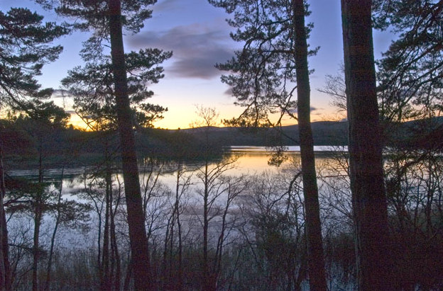 Dawn at Loch Davan. Looking southeast over this loch which is a bird sanctuary...what a pity you can't hear the dawn chorus that accompanied this shot...!